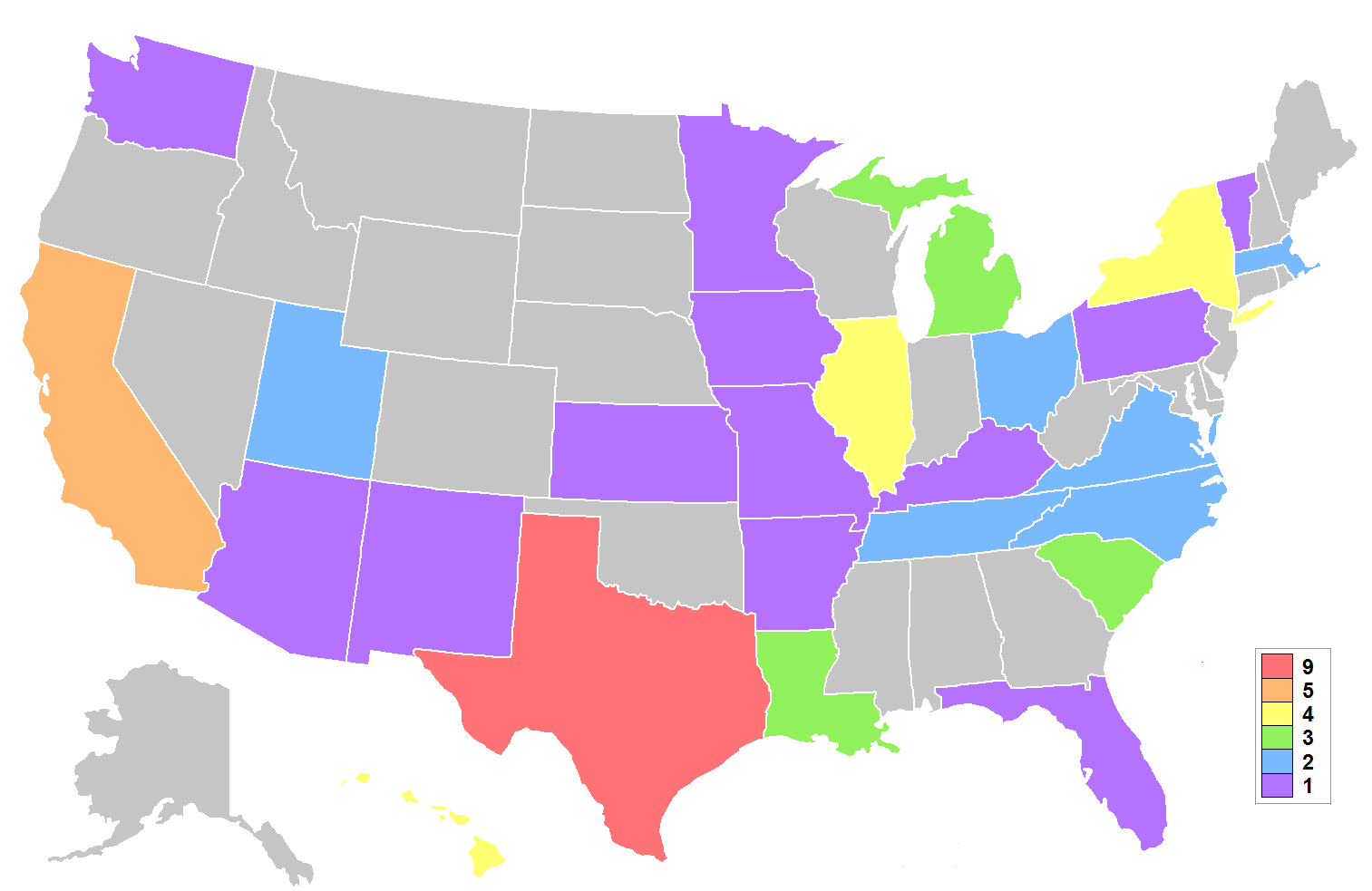 Summary: Miss USA winning states as of 2007. Own work based off Image:BlankMap-USA-states.PNG Key: 8 wins 5 wins 4 wins 3 wins 2 wins 1 win